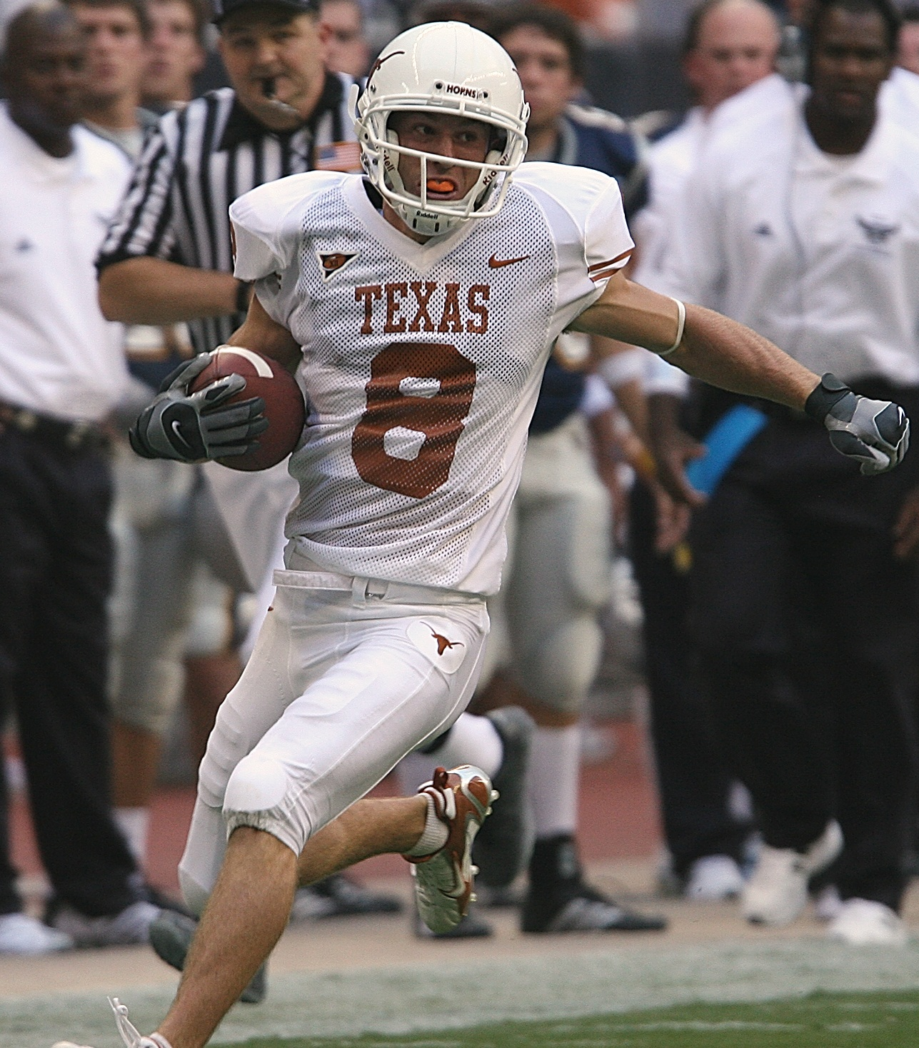 Jordan Shipley carries the ball for the Texas Longhorns in a 2006 game at Rice University